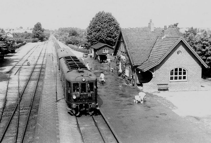 Vangede Station in Vangede, Hentofte Municipality, Denmark